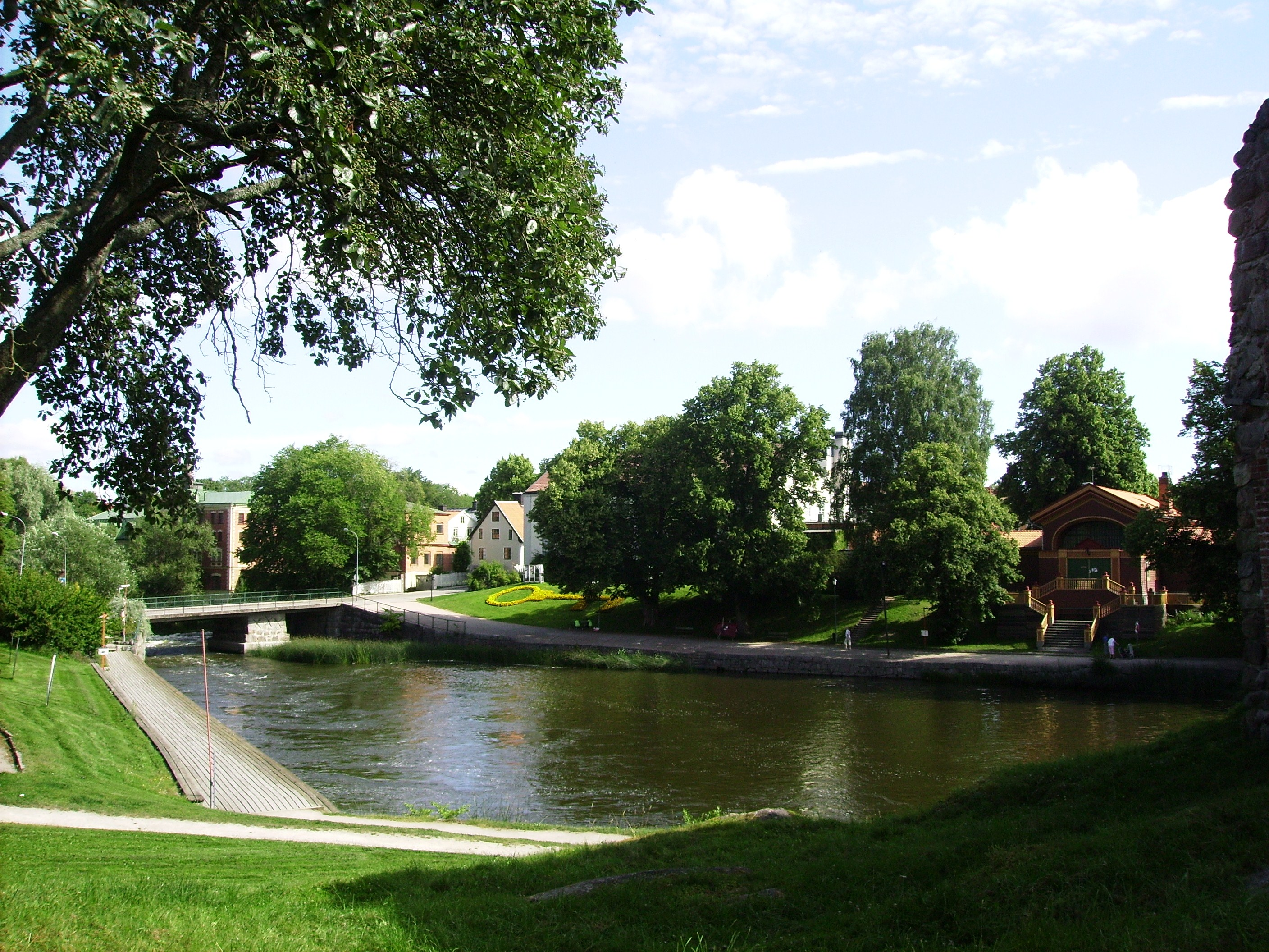 Picture of river Nyköpingsån in Södermanland